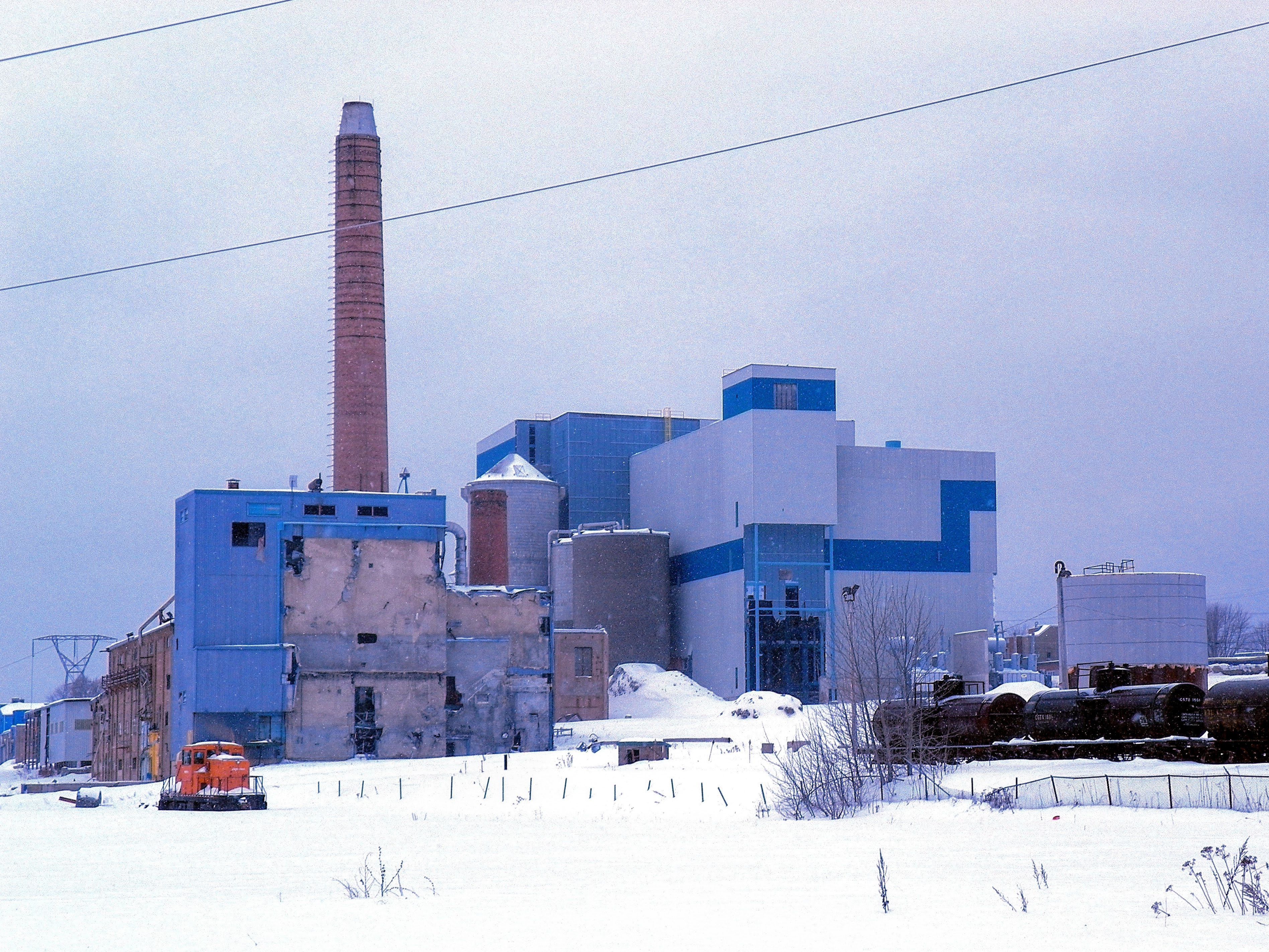 Abitibibowater's Gaspésia plant being dismantled in Chandler, Quebec.